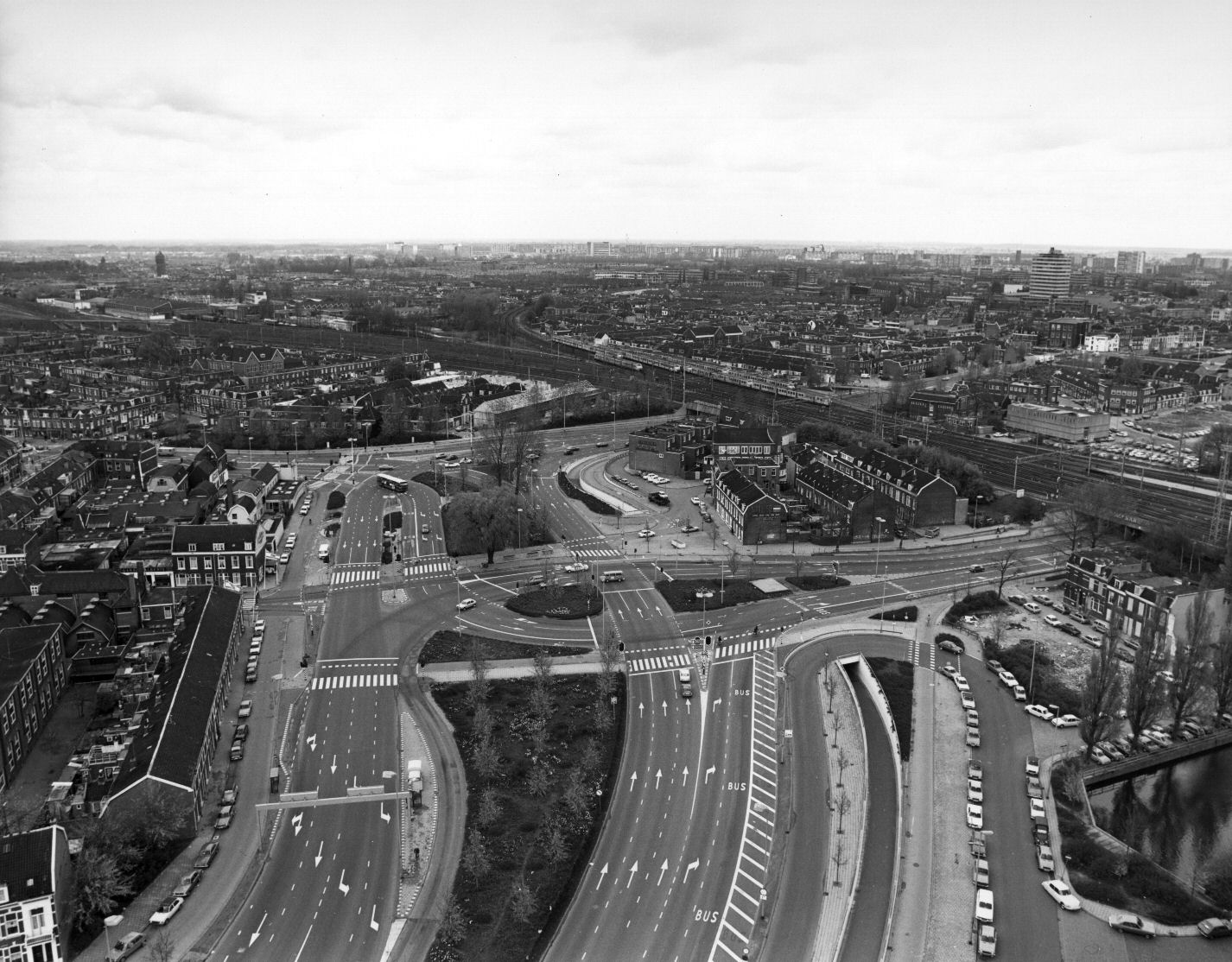 Westplein in Utrecht, the Netherlands in 1979. As seen from the Holiday Inn Hotel from the south.